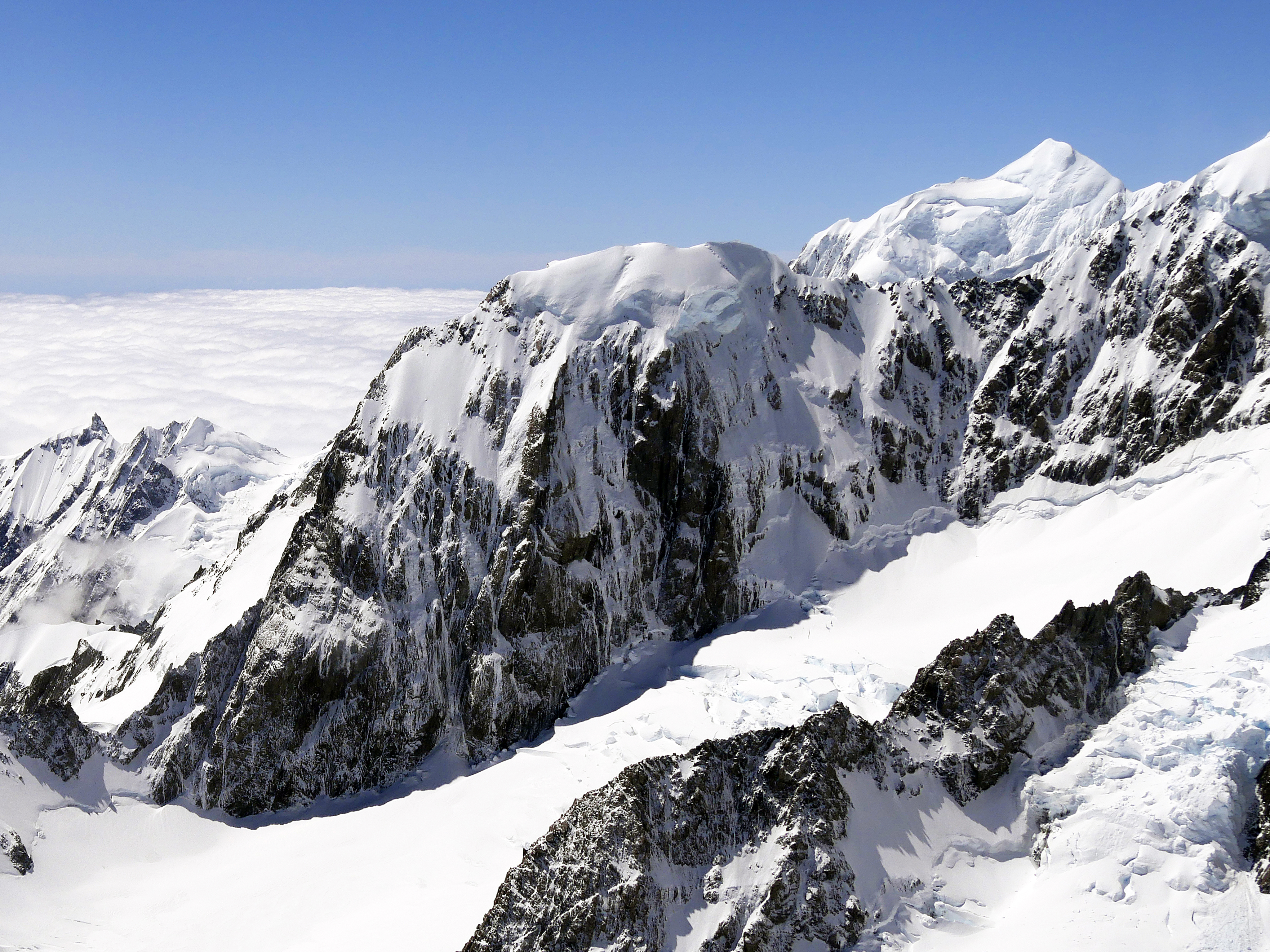 Southern Alps, Mount Hicks, Mount Vancouver, Sheila Glacier and Earl Ridge, Southland Island, New Zealand